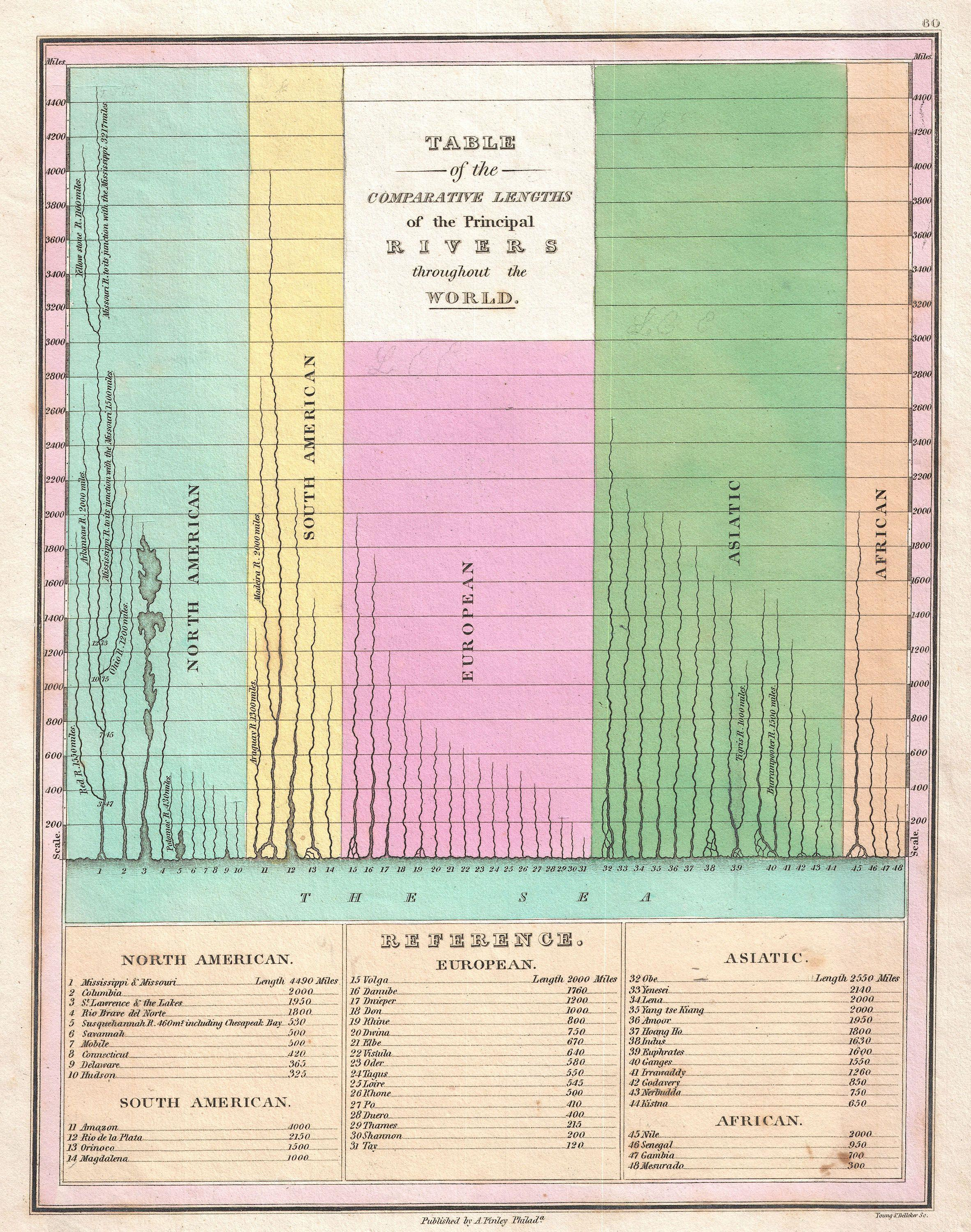 This is Finley’s highly sought after c. 1827 map of the comparative lengths of the principal rivers of the world. Details the world’s great rivers in relative to one another and divided by continent. Each river is numbered and refers to a reference list below the chart proper, which names each river and its length. There are a couple of curiosities. The Mississippi is considered, by far, to be the world's longest river. The length of the Nile is grossly underestimated - when this was made the source of the Nile had yet to be determined. The St. Lawrence River is drawn to include four of the five Great Lakes. Engraved by Young and Delleker for the 1827 edition of Anthony Finley's General Atlas .